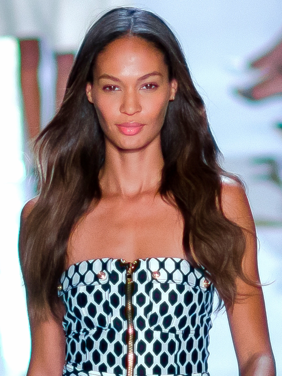 Model Joan Smalls on the runway at the Diane von Fürstenberg' Spring & Summer 2014 collection